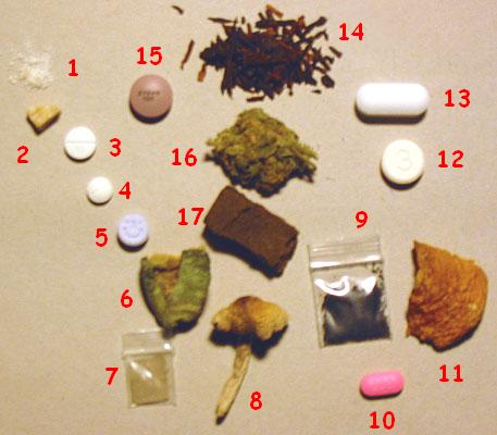 An assortment of psychoactive drugs—street drugs and medications: 1. cocaine 2. crack cocaine 3. methylphenidate (Ritalin) 4. ephedrine 5. MDMA (Ecstasy - lavender pill with smile) 6. mescaline (green dried cactus flesh) 7. LSD (2x2 blotter in tiny baggie) 8. psilocybin (dried Psilocybe cubensis mushroom) 9. Salvia divinorum (10X extract in small baggie) 10. diphenhydramine (Benadryl - pink pill) 11. Amanita muscaria (red dried mushroom cap piece) 12. Tylenol 3 (contains codeine) 13. codeine containing muscle relaxant 14. pipe tobacco (top) 15. bupropion (Zyban - brownish-purple pill) 16. cannabis (green bud center) 17. hashish (brown rectangle)